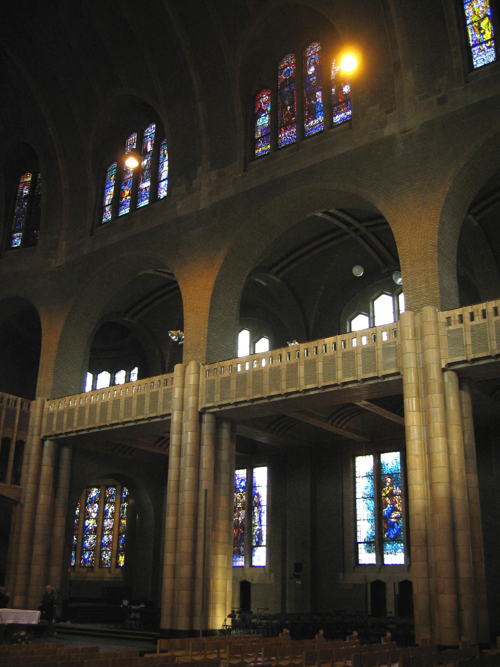 Basilica of Koekelberg, Koekelberg (Brussels). Interior view